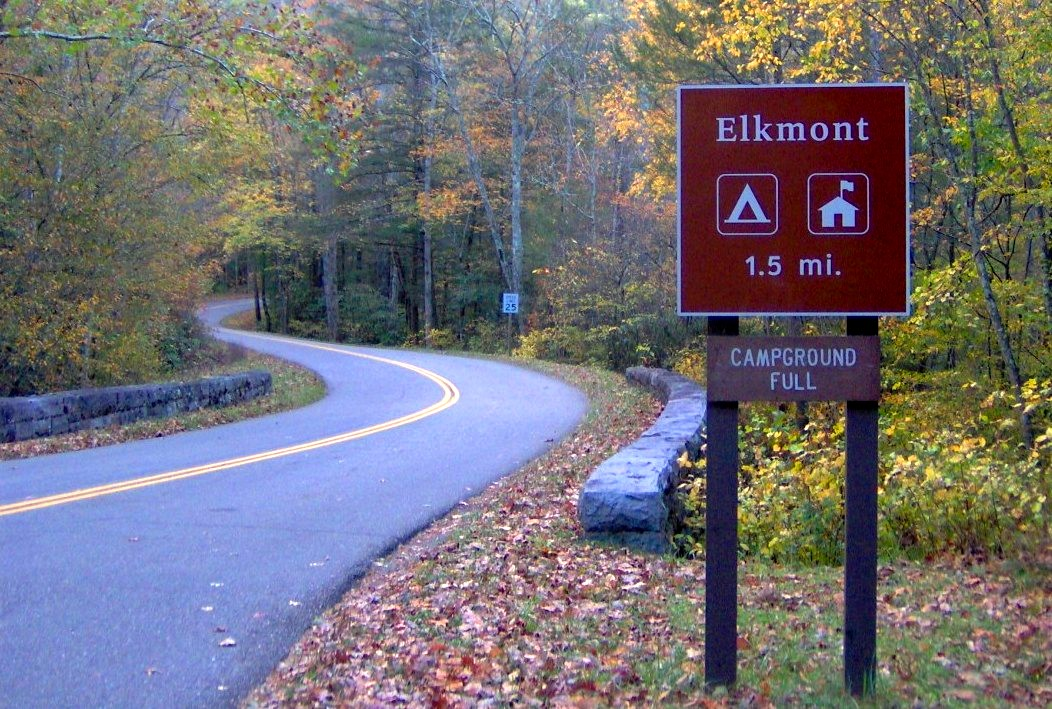 The entrance to Elkmont, GSMNP, in East Tennessee. Elkmont is appx. 13 miles east of Townsend and 7 miles west of the Sugarlands Visitor Center along Little River Road.